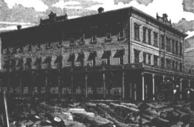 The Umatilla House hotel in The Dalles, Oregon from The West Shore